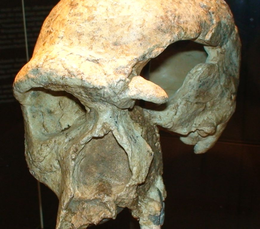 Image of a copy of the human skull of the early human "Steinheimer", 250.000 years old, presented in the "Urmensch-Museum Steinheim an der Murr" (Steinheim at river "Murr") in Steinheim Baden-Württermberg, near Ludwigsburg / in the North of Stuttgart, Germany